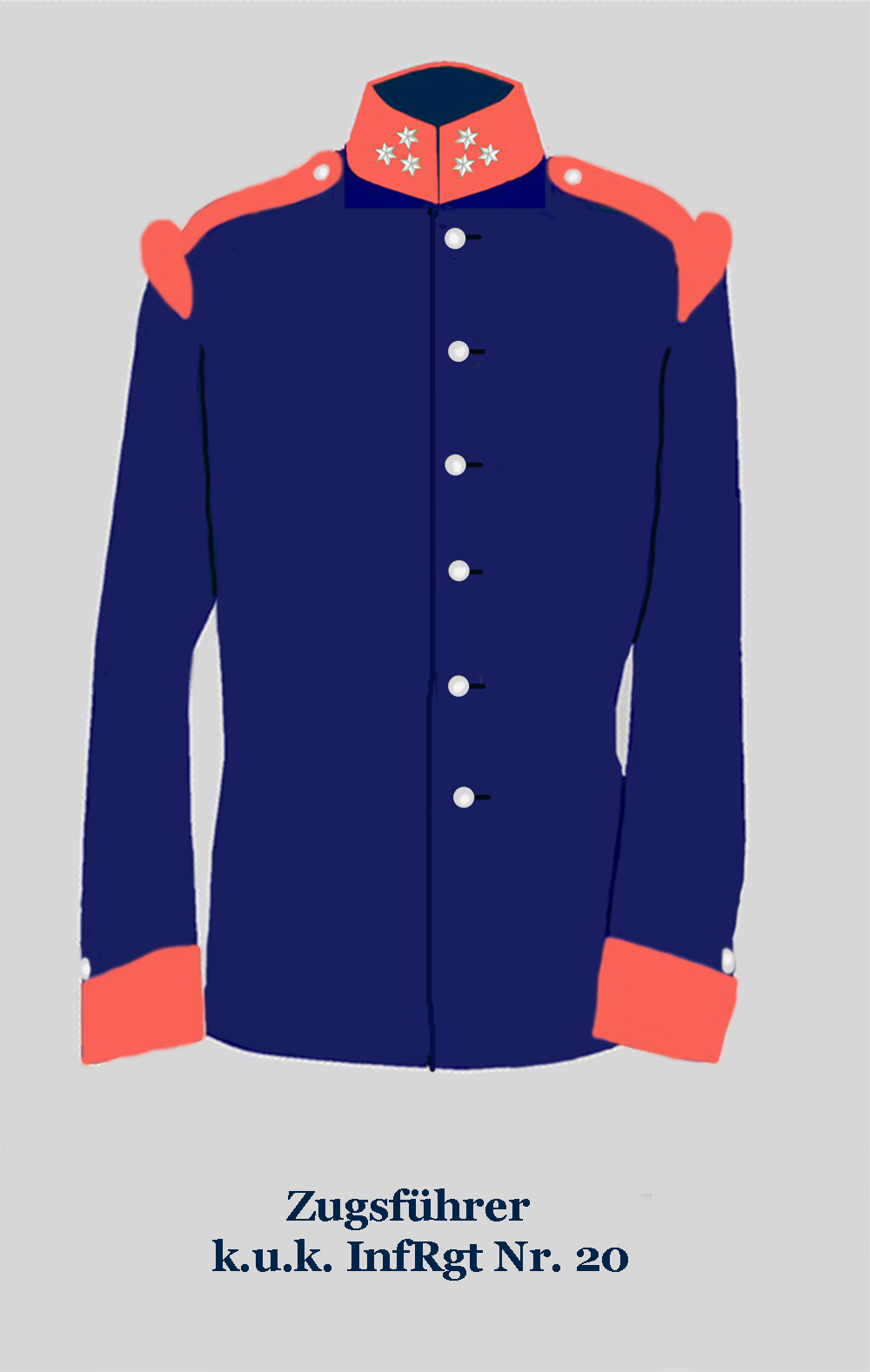 Sergeant of the k.u.k hungarian 20th Infantry Regiment. Crab-red identification color and white buttons. )